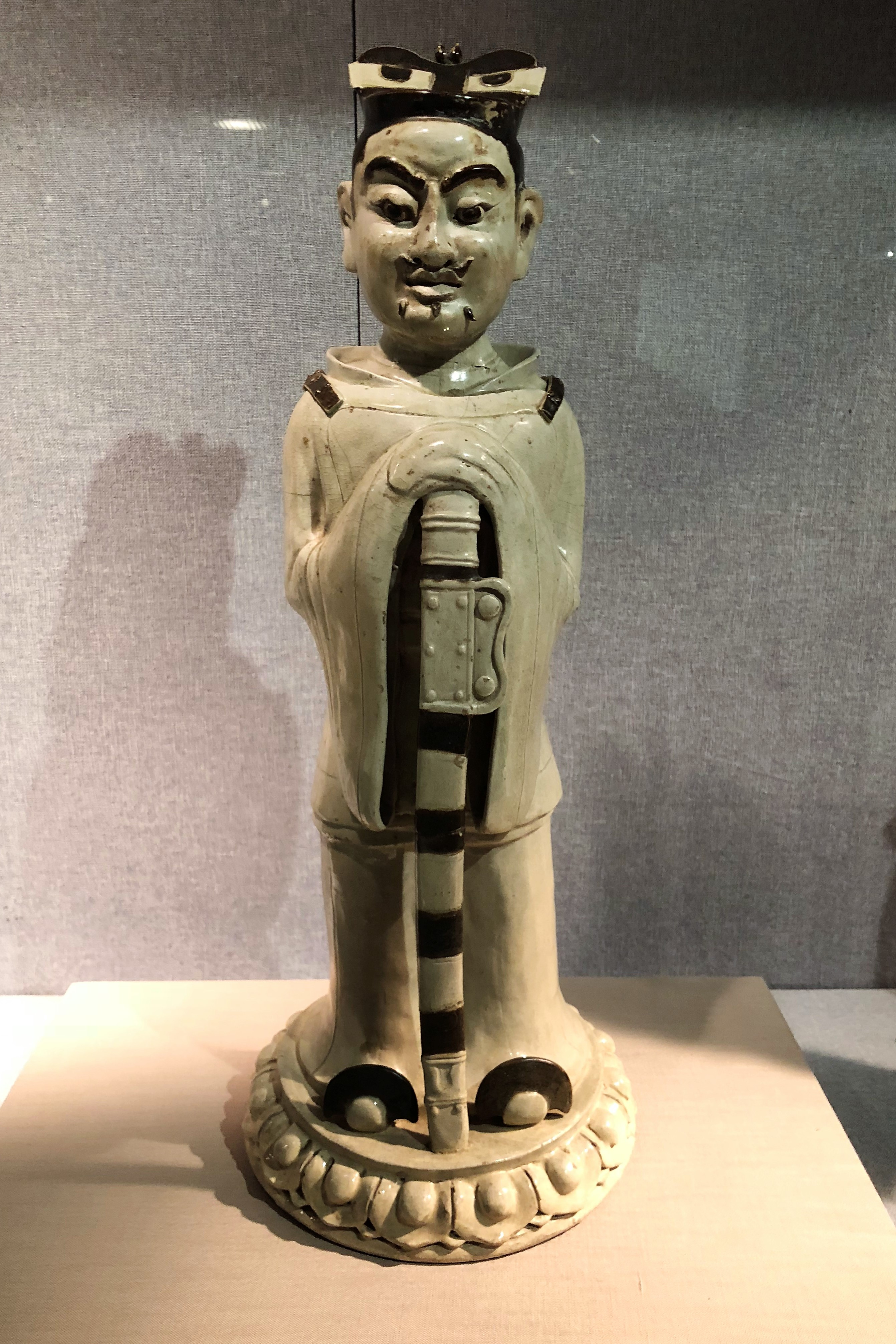 White-glazed porcelain official. A.D.595. Excavated from Zhang Sheng's tomb, Anyang, 1959.